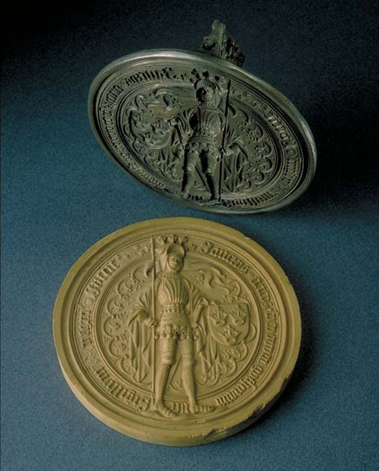 Signet and seal of Sweden. Depicts Eric IX of Sweden in three-quarter length profile holding a fluttering banner behind his head. His left hand holds a shield with the coat of arms of Sweden, Three Crowns. Dressed in armour and helmet.